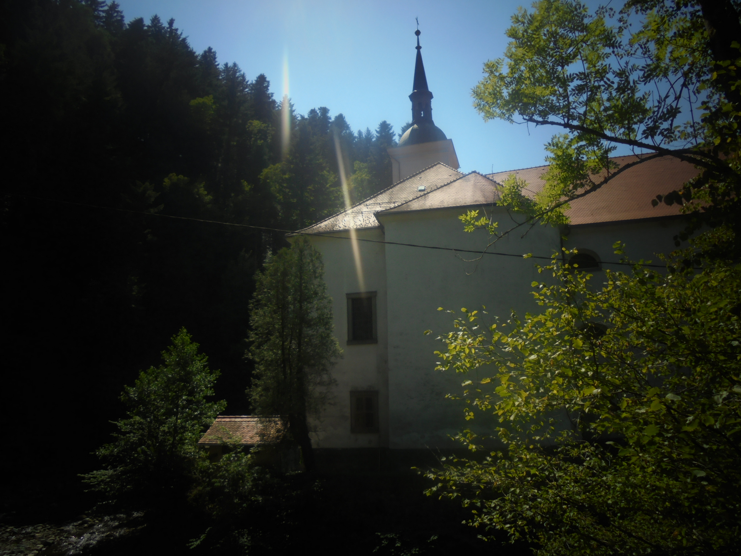 Parish church